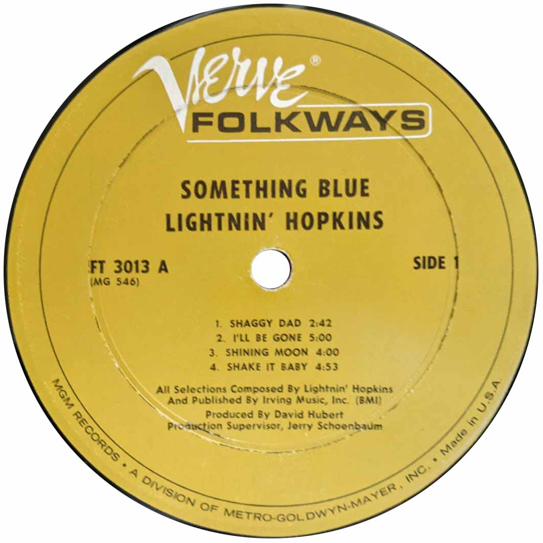 Original Verve Folkways record label of Lightnin' Hopkins "Something Blue", 1967. This label was used before 'Verve Folkways" label was renamed into 'Verve Forecast"